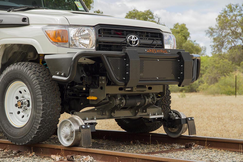 Road-rail vehicle conversion of a Toyota Land Cruiser to allow the vehicle to operate on standard-gauge railway lines.